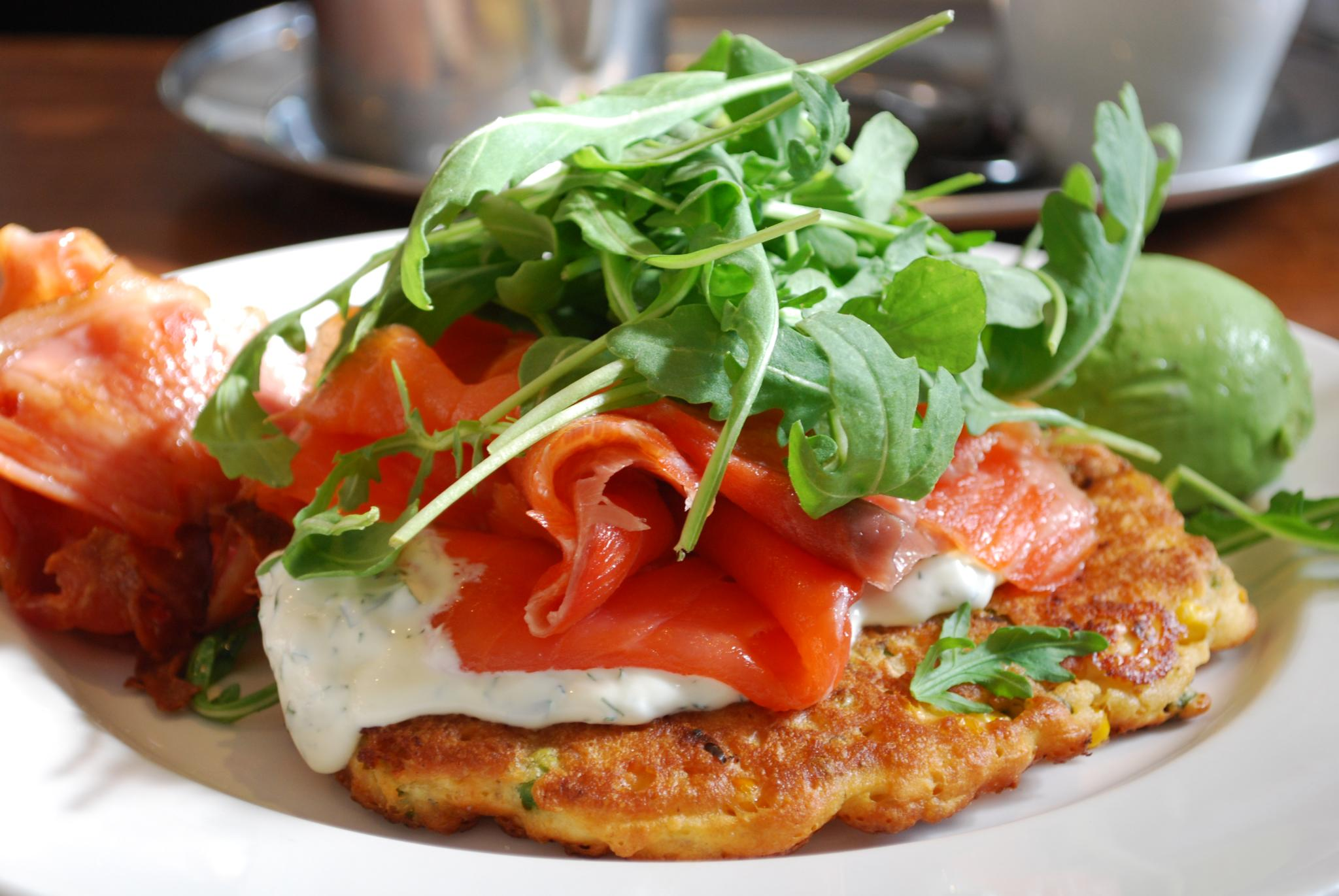 Smoked Tasmanian Salmon with a pea, feta & corn fritter, avocado, rocket & a dill sour cream.